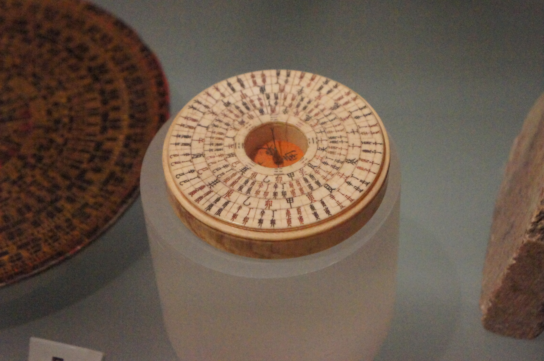 Photo of a Chinese geomantic compass from c. 1760 taken at the National Maritime Museum, United Kingdom. (more information available on the museum website) Museum label: "The seven rings surrounding the needle are divided into segments and marked with symbols and Chinese characters. Those representing north, south, east, and west are traditional characters from the geomancer's compass."